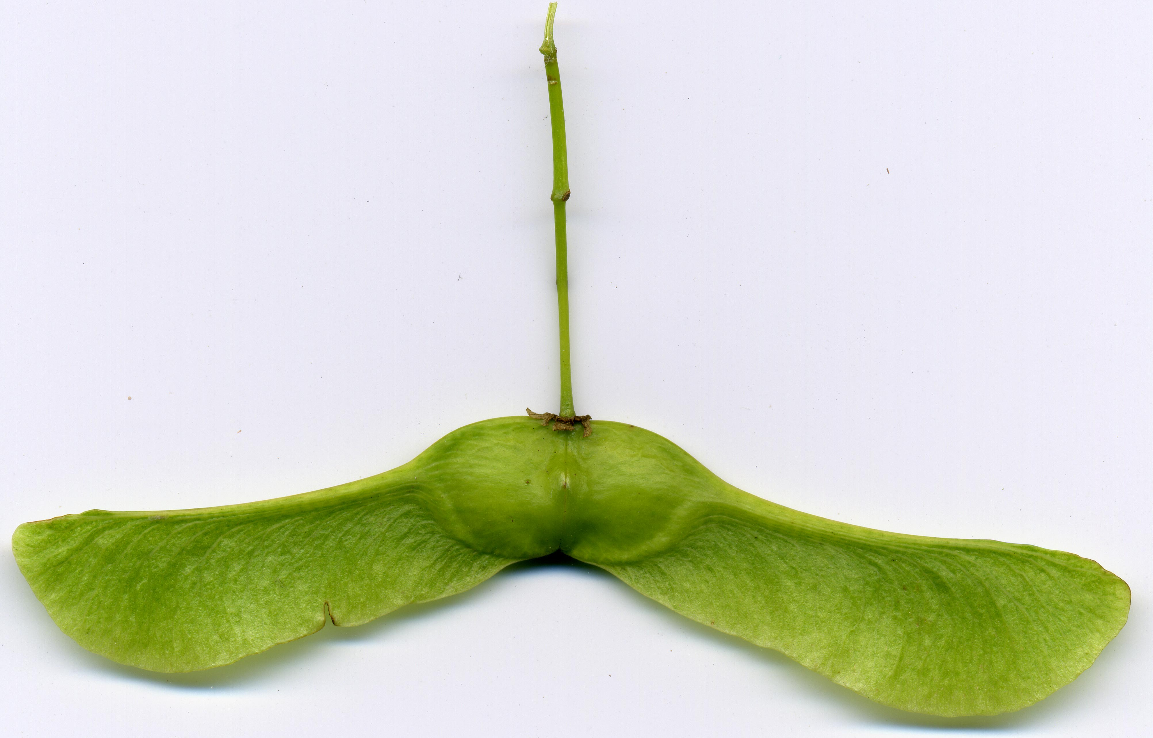 Fruit of maple (Acer platanoides)